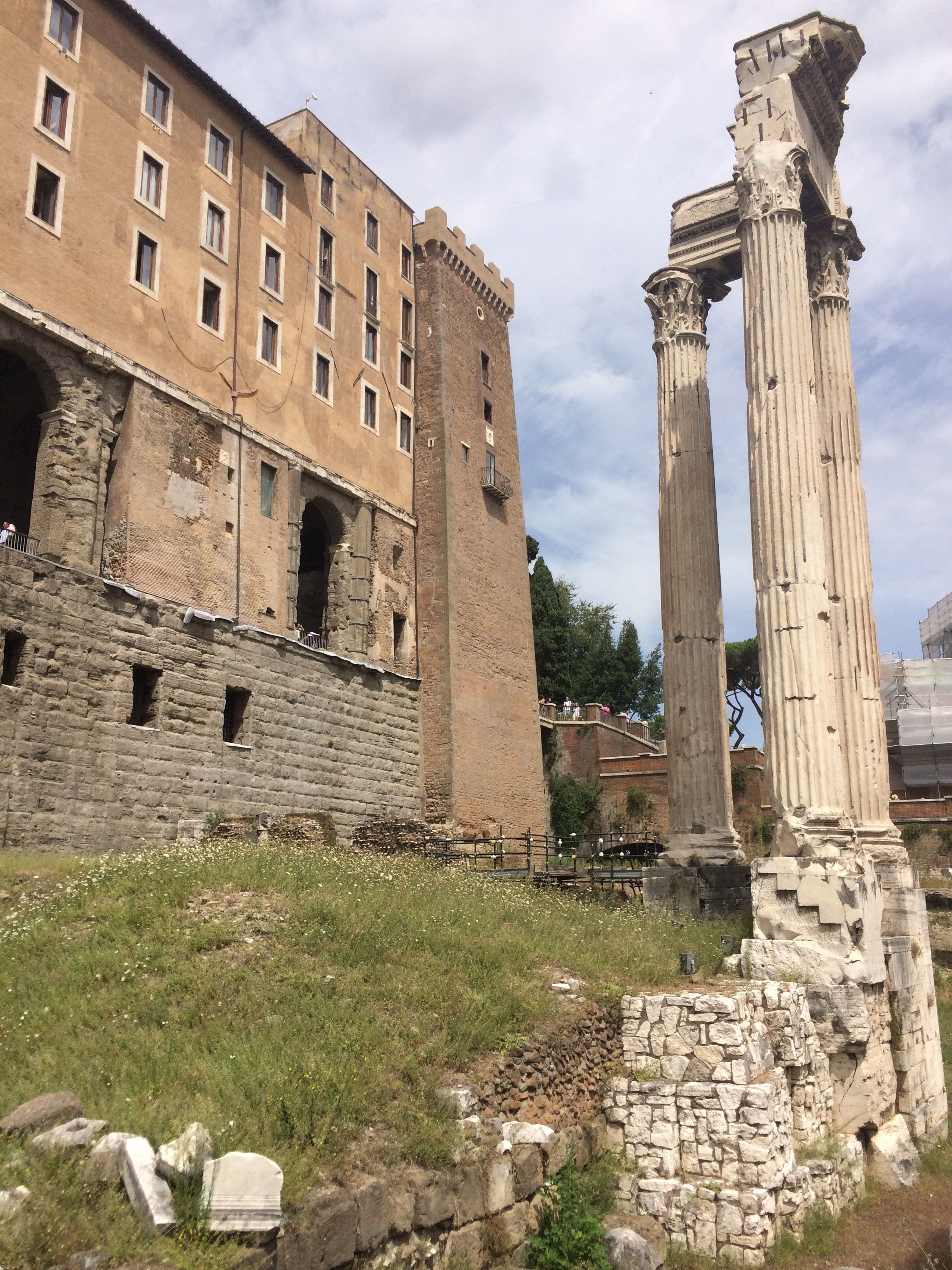 The Tabularium in the Roman forum, behind theTemple of Vespasian and Titus.